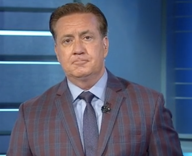 Bob Lorenz speaking on the YES Network in July 2020